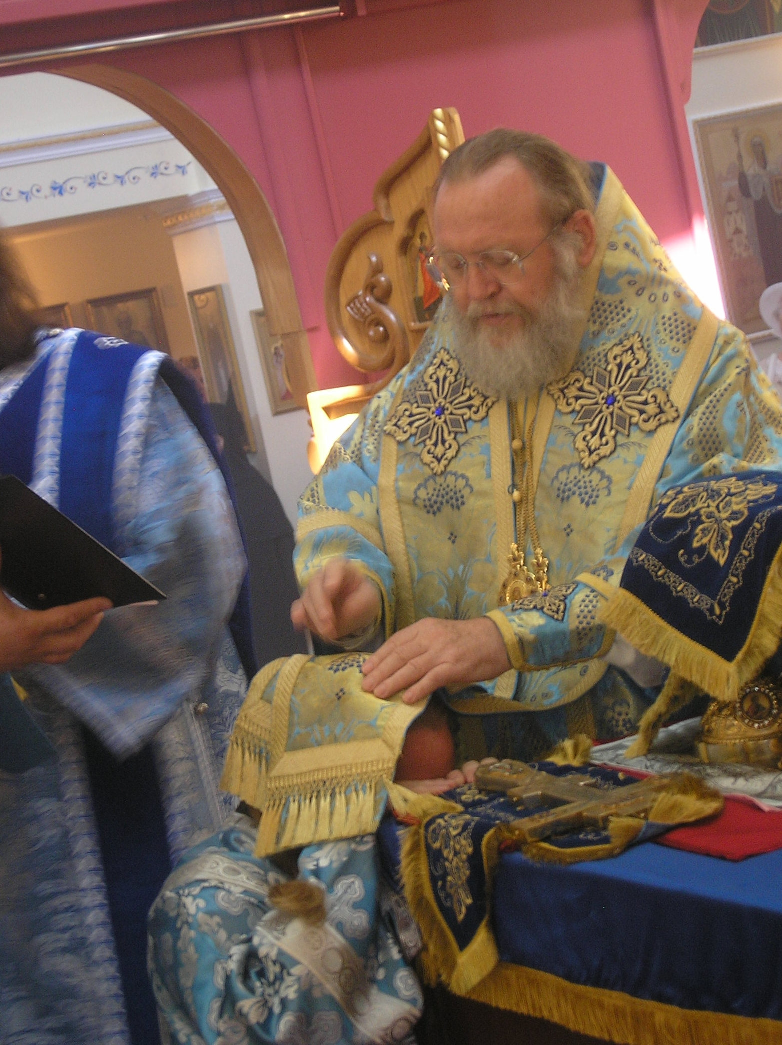 At the ordination of an orthodox priest, immediately before commencing the prayers of Cheirotonia (laying on of hands) the bishop blesses the head of the deacon being ordained, the latter kneeling at the south west corner of the holy table with the bishop’s omophorion and left hand on his head.